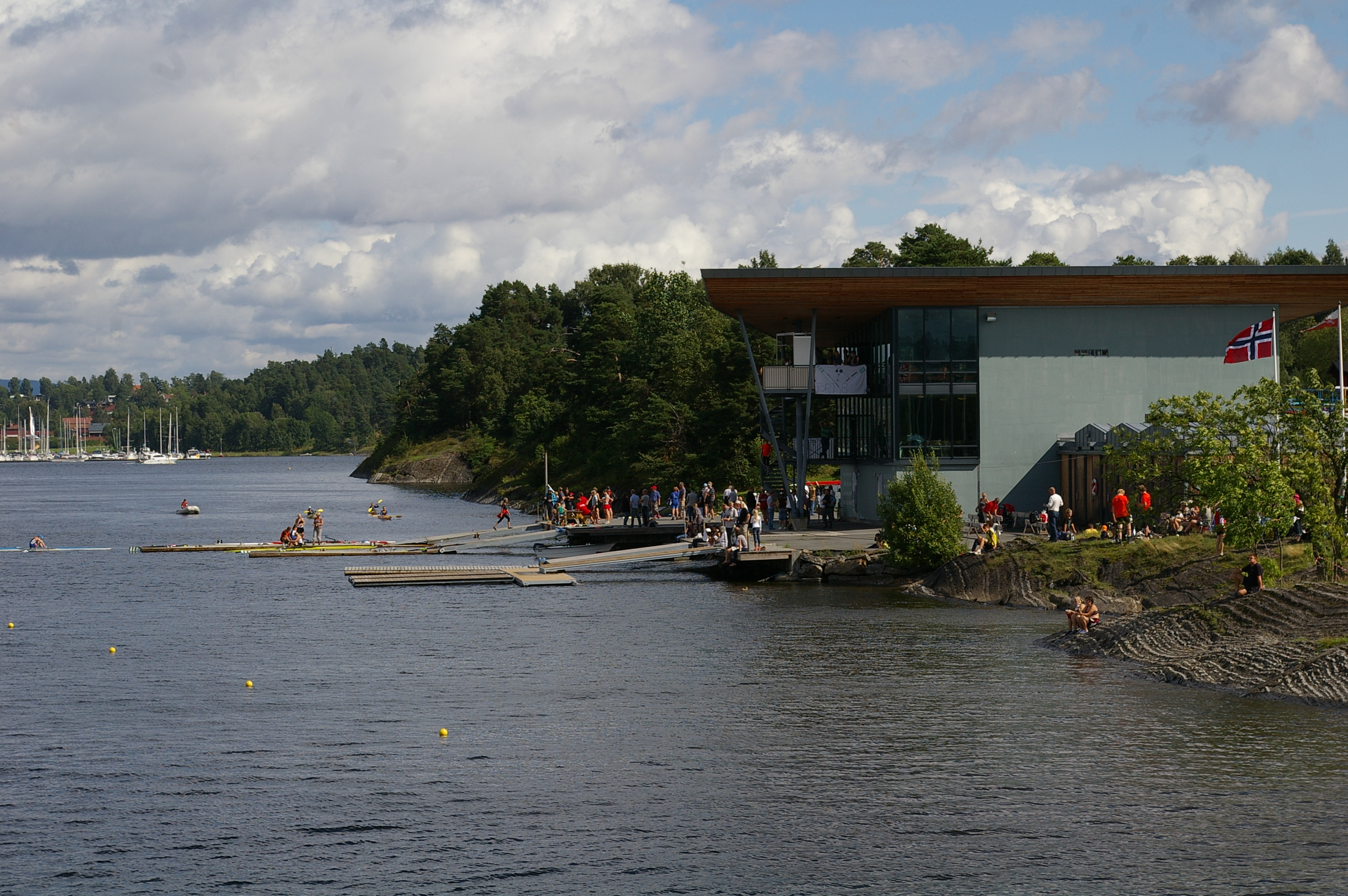 The home of Bærum Roklubb and Bærum Kajakklubb in Akershus, west of Oslo in Norway. The picture is taken from the bridge crossing from Kadettangen.